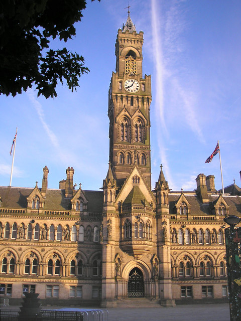 Bradford City Hall, West Yorkshire, England. A Grade I listed building, designed by local architects Lockwood and Mawson, opened as Bradford Town Hall in 1873.